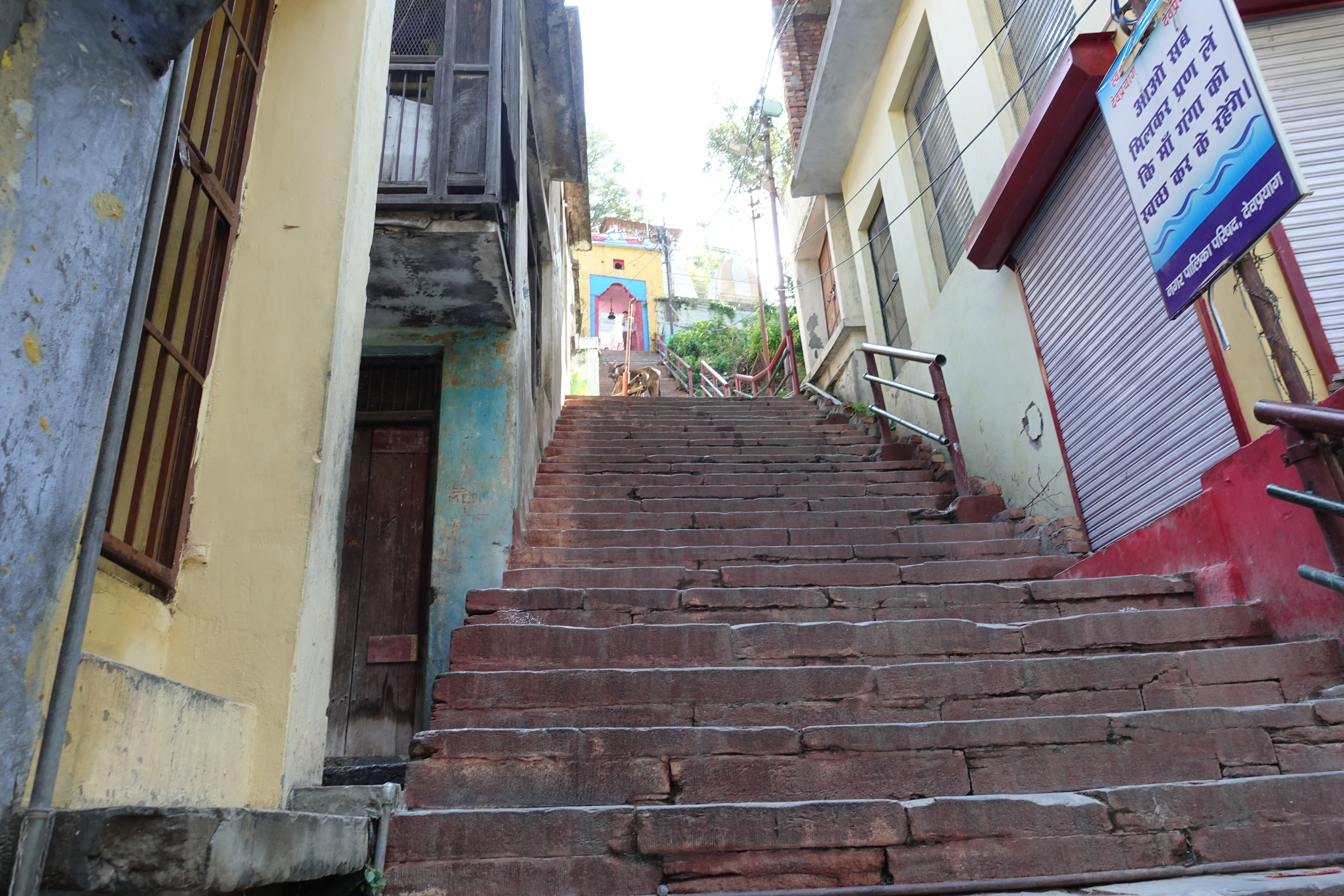 Steps leading to Raghunathji’s temple from the Confluence